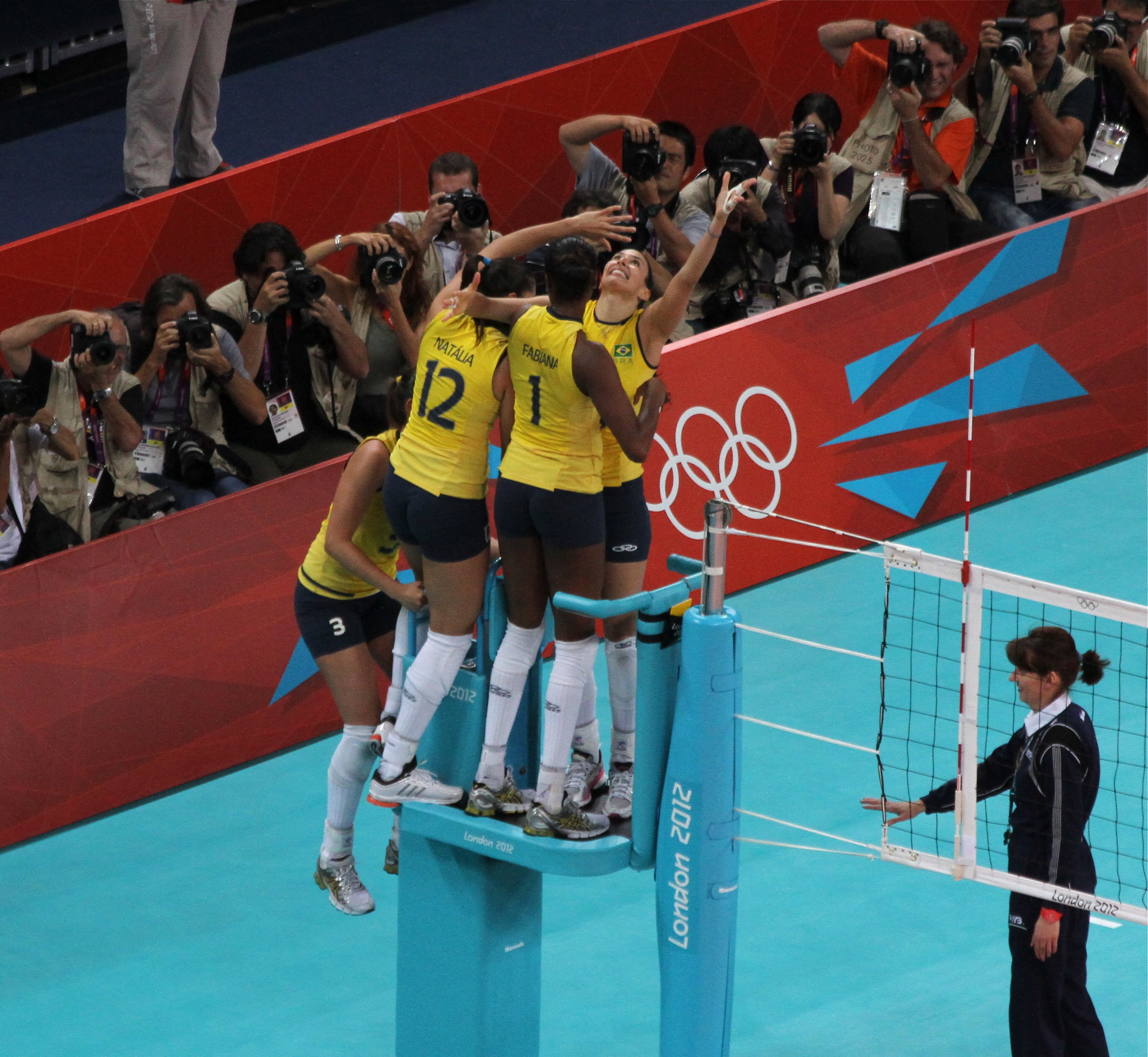 Posted via email from Globalite Magazine